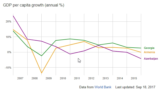 GDP per capita growth in Armenia Azerbaijan Georgia in 2007-2016 in constant local currency, World Bank data